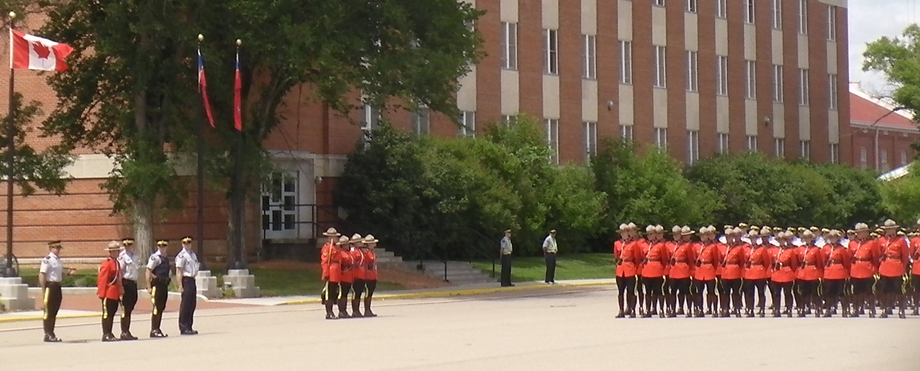 Outdoor part of the graduation ceremony for a Royal Canadian Mounted Police cadet troop. Held at RCMP Academy, Depot Division in Regina, Saskatchewan, Canada at 12:52 PM local time.